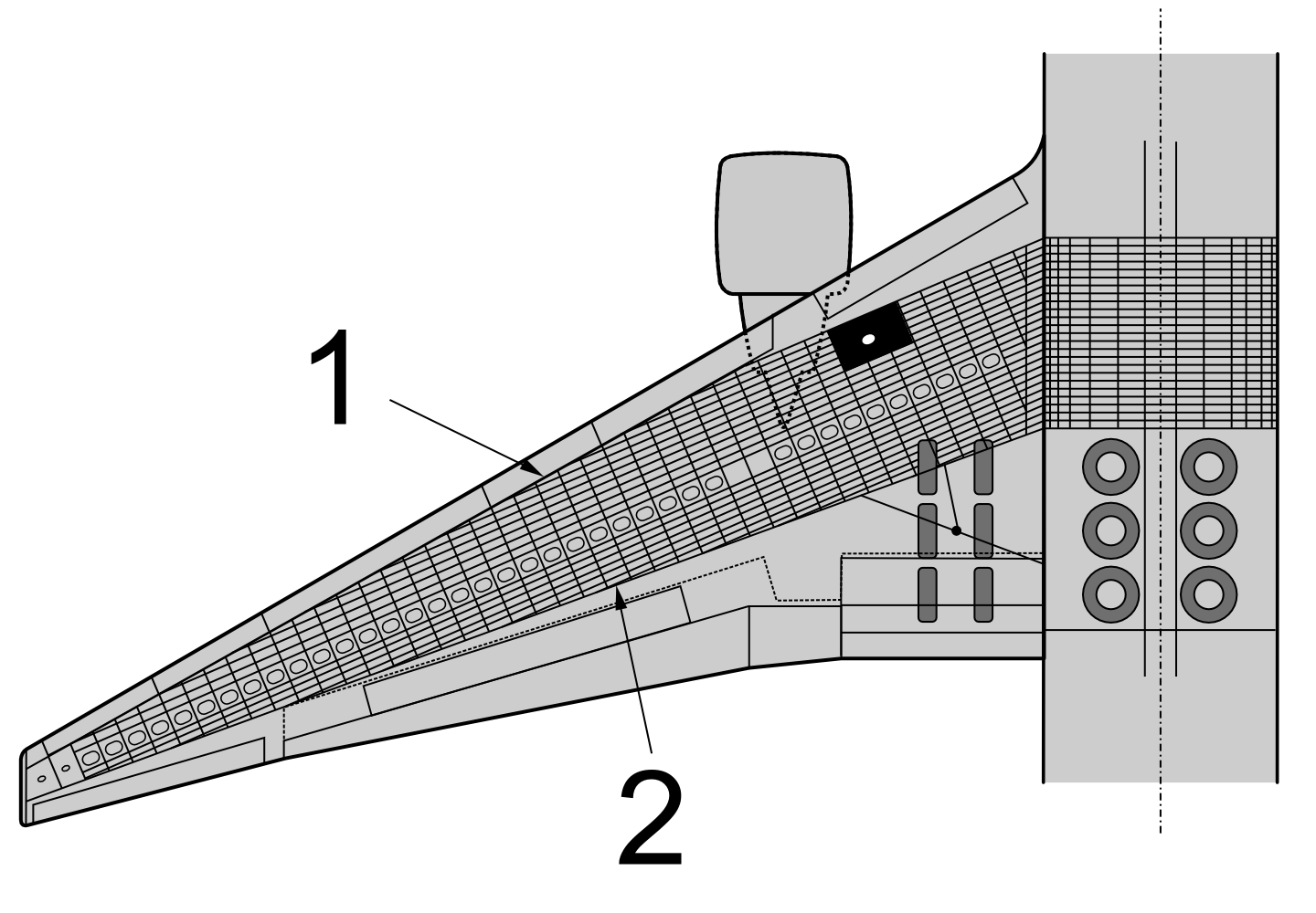 Jetliner's wing structure (B-777) 1.Front beam 2.Rear beam